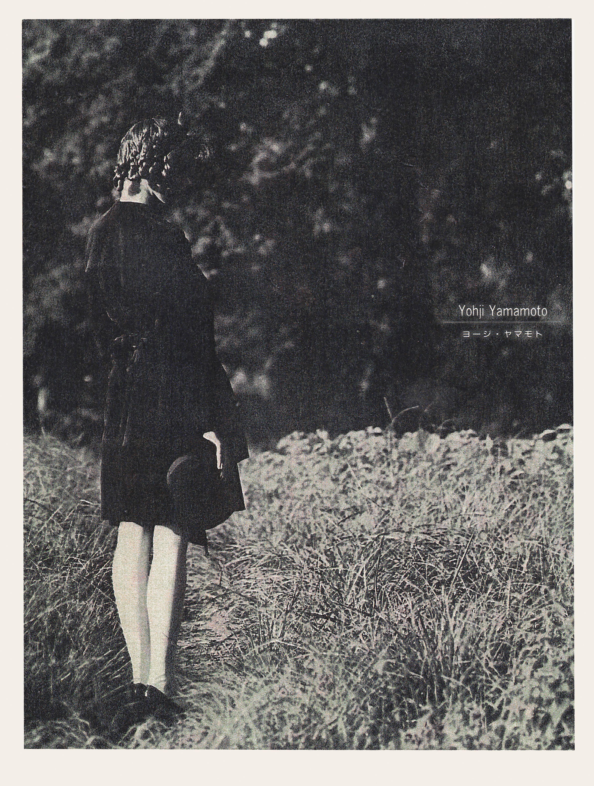 Yohji Yamamoto haute couture. Model: Kate Plante Cordsen. 1987